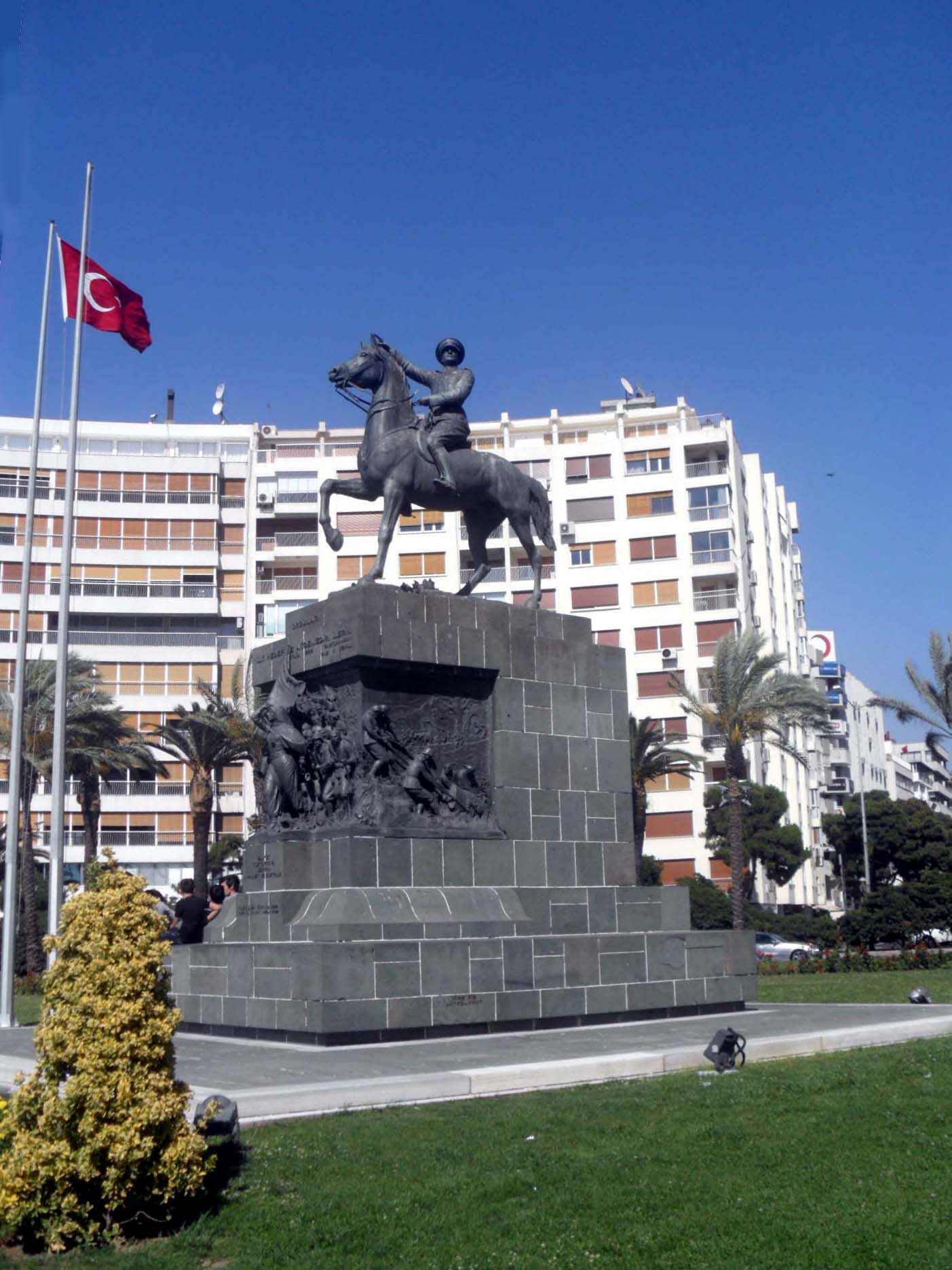 Atatürk Monument in İzmir, Turkey